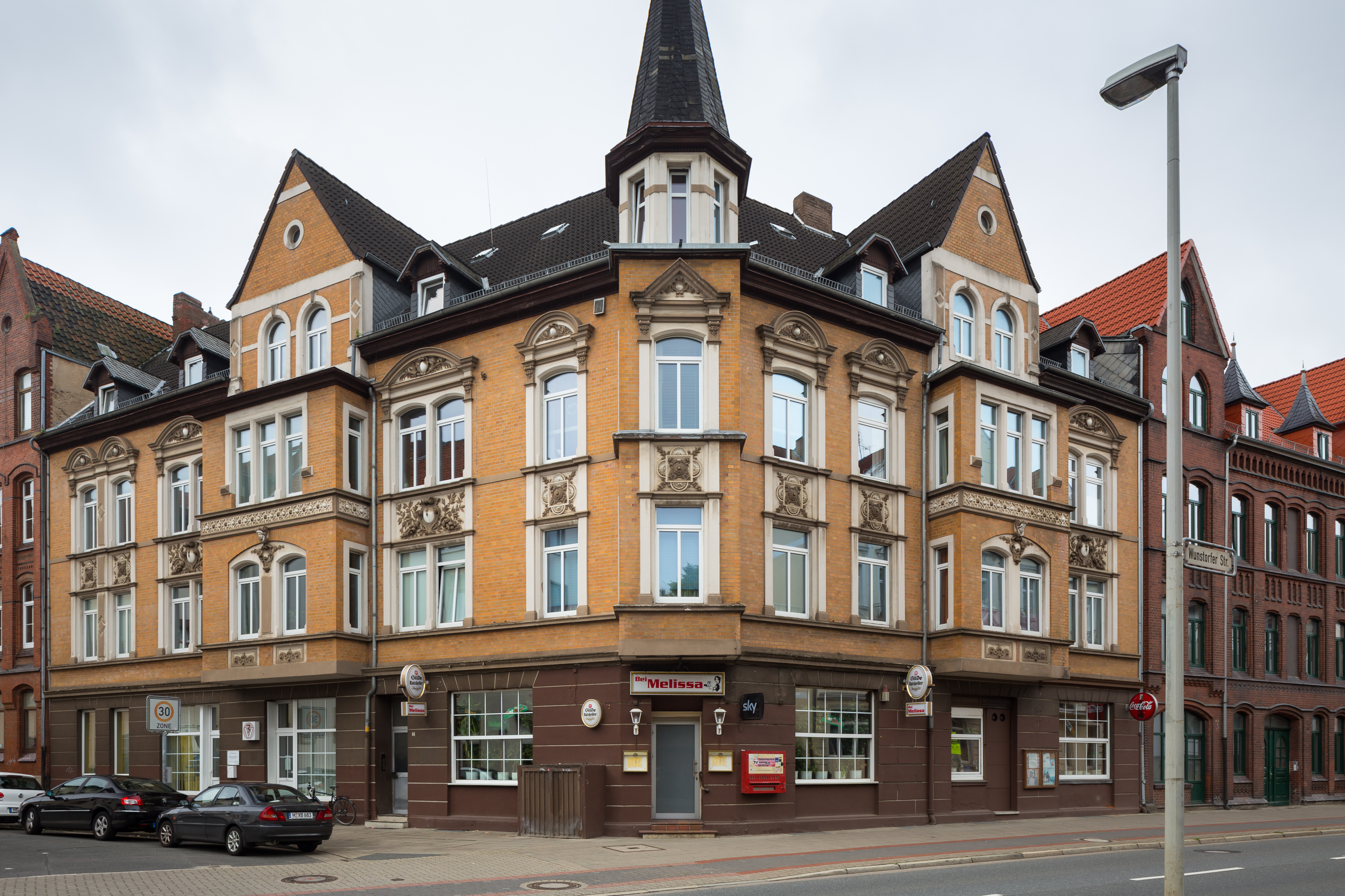 Apartment house located at Wunstorfer Strasse (foreground) and Varrelmannstrasse in Limmer quarter of Hannover, Germany.